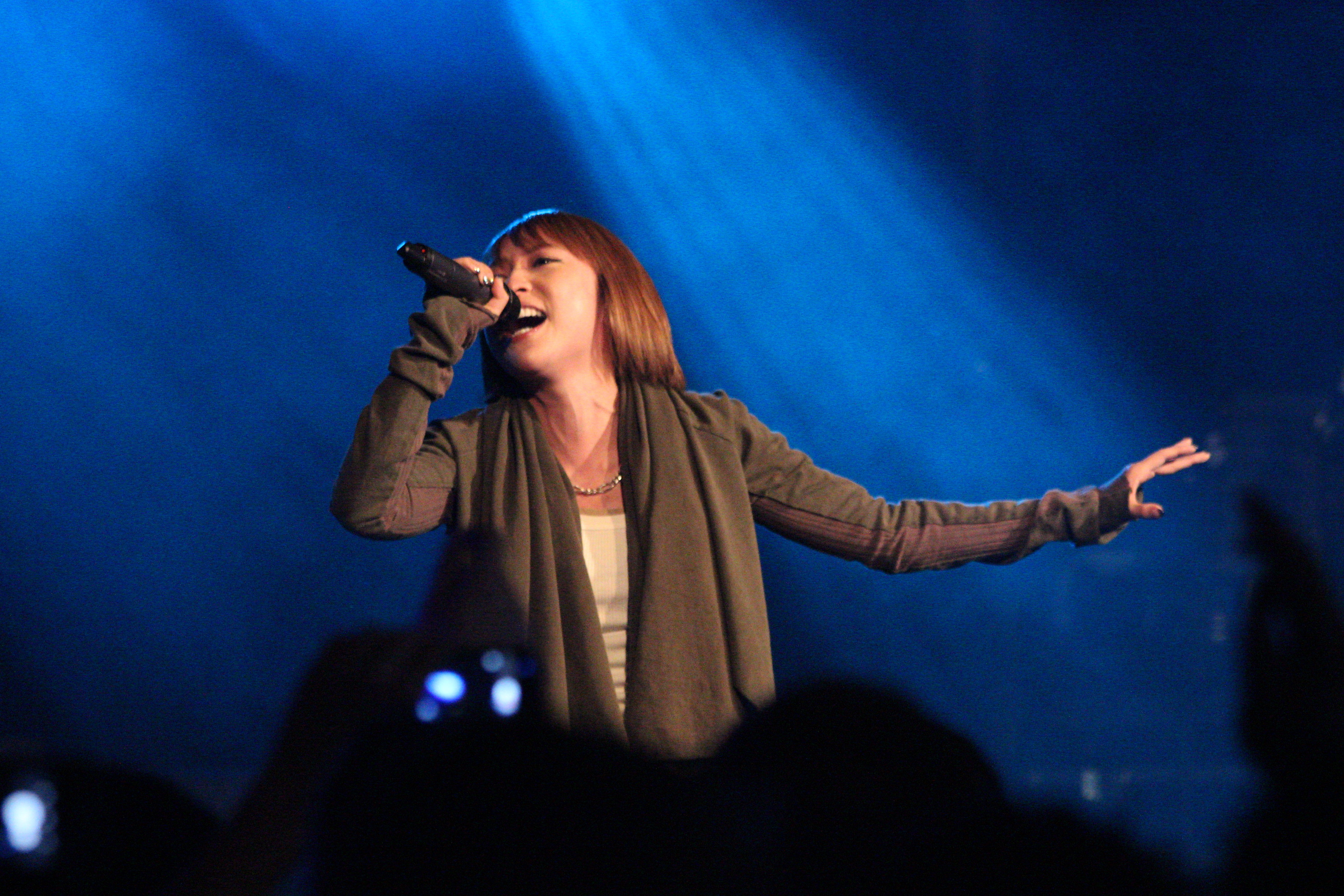 Japanese vocalist and anisong performer Eir Aoi performing at HYPER JAPAN 2015 summer festival.